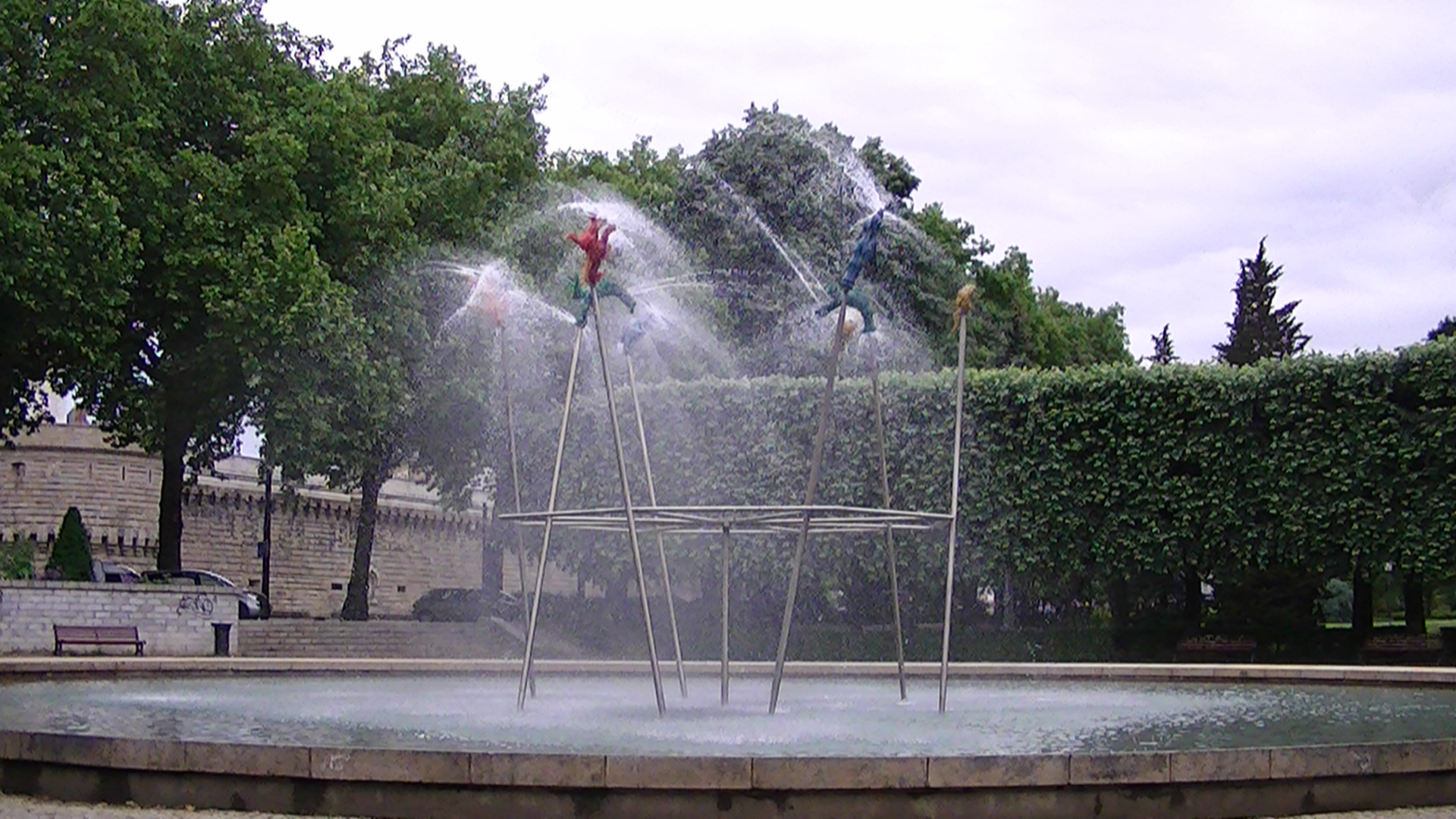 Fountain in Square Élisa Mercoeur, Nantes